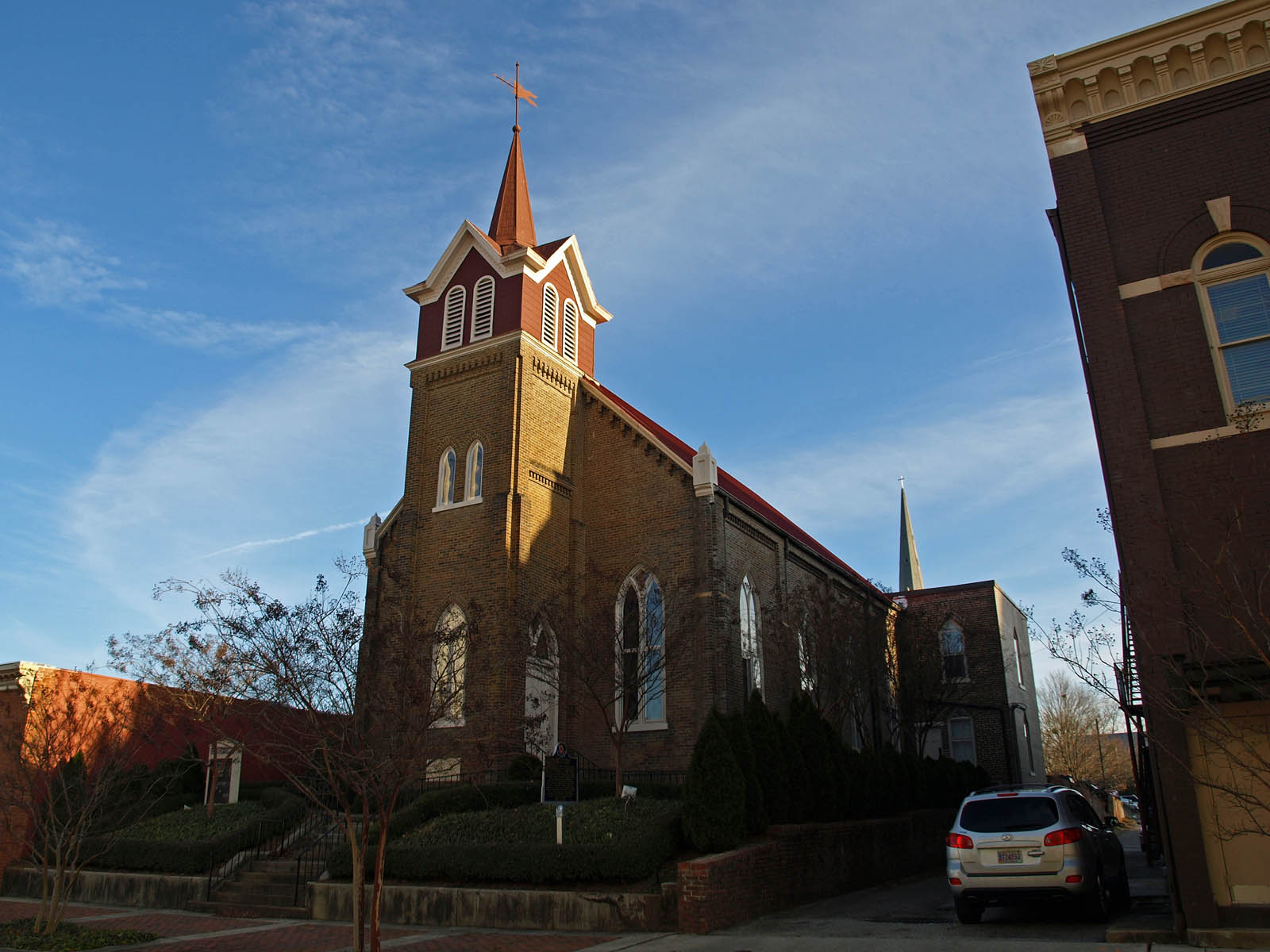 Randolph Street Church of Christ in Huntsville, Alabama, listed on the National Register of Historic Places.